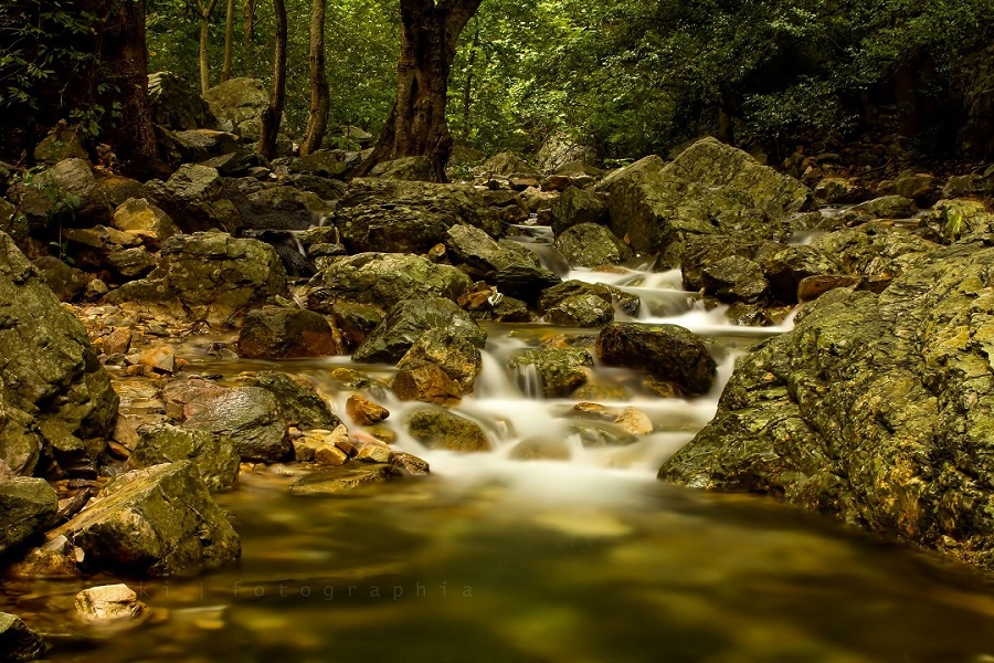 Ubbalamadugu Falls (Tada Falls) is a beautiful series of waterfalls and cascades — located in the Eastern Ghats, in the Chittoor district of Andhra Pradesh state, southeast India. Under the Buchinaidu kandriga & Varadaiahpalem mandals, north of Sricity.